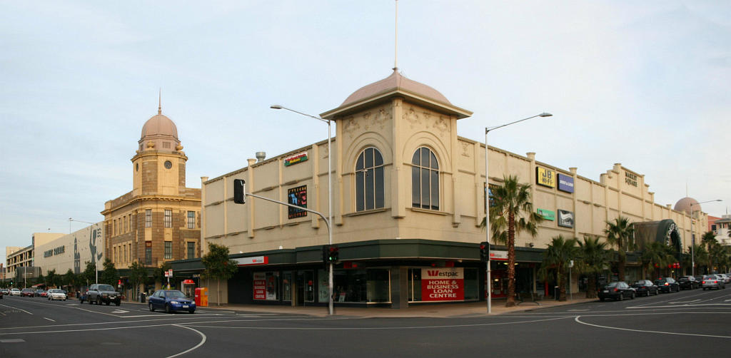 Market Square Shopping Centre, Geelong. To the rear-left is the Colonial Mutual Life Assurance Building (with a clock tower).